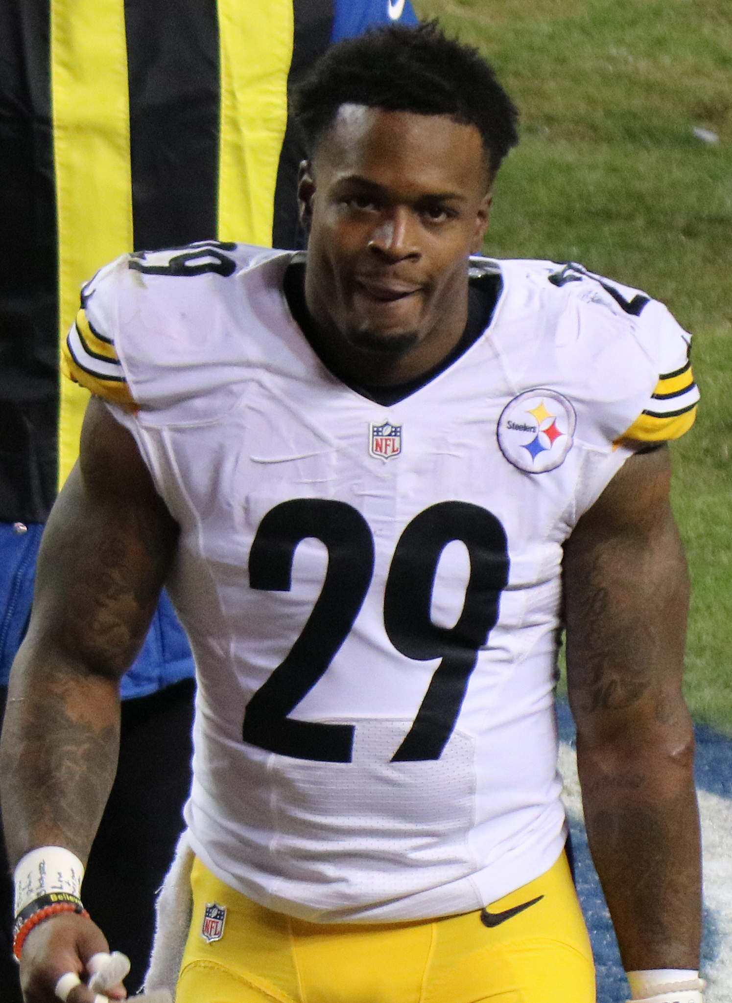 Shamarko Thomas, a player on the National Football League.